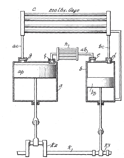 US Patent #1,926,463